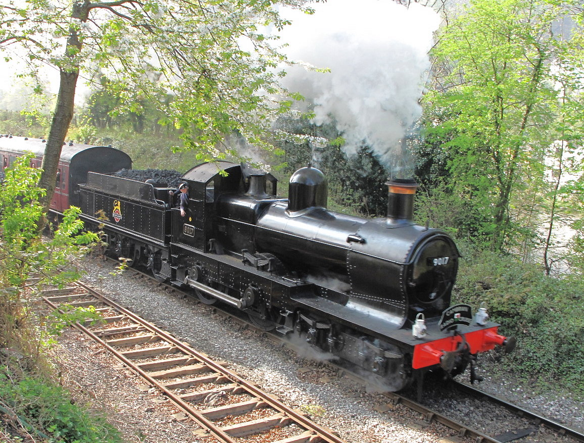 Preserved "Dukedog" class 3200, 4-4-0 near Llangollen